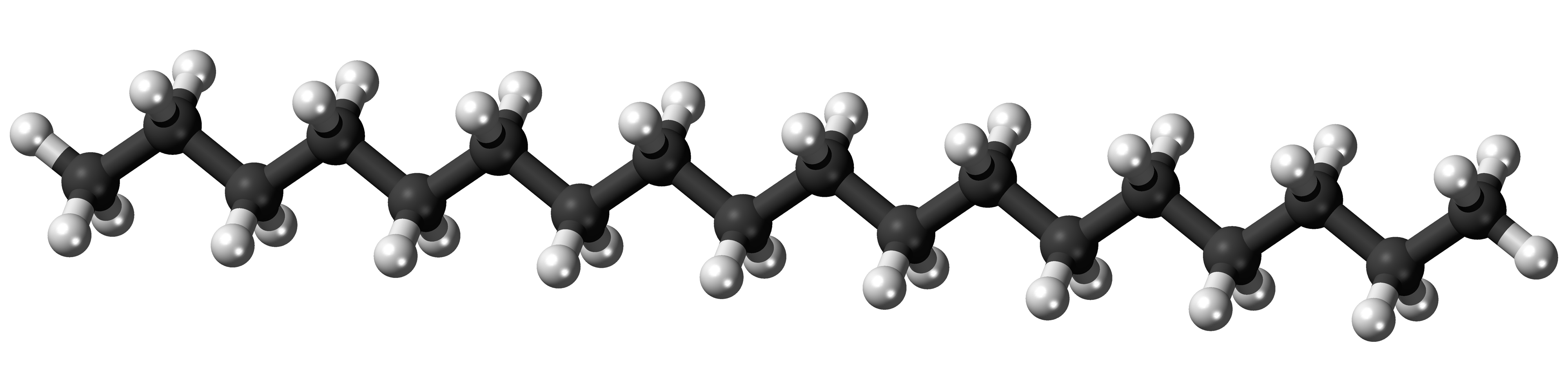 Ball-and-stick model of the octadecane molecule, an alkane with 18 carbon atoms. Color code: Carbon, C: black Hydrogen, H: white